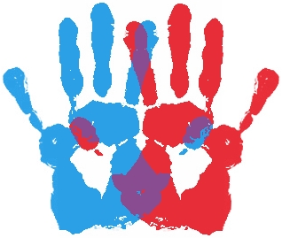 ambidextrous